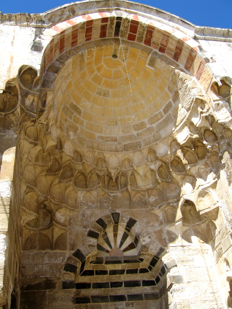 Iwan at Al-Aqsa Mosque, Jerusalem.